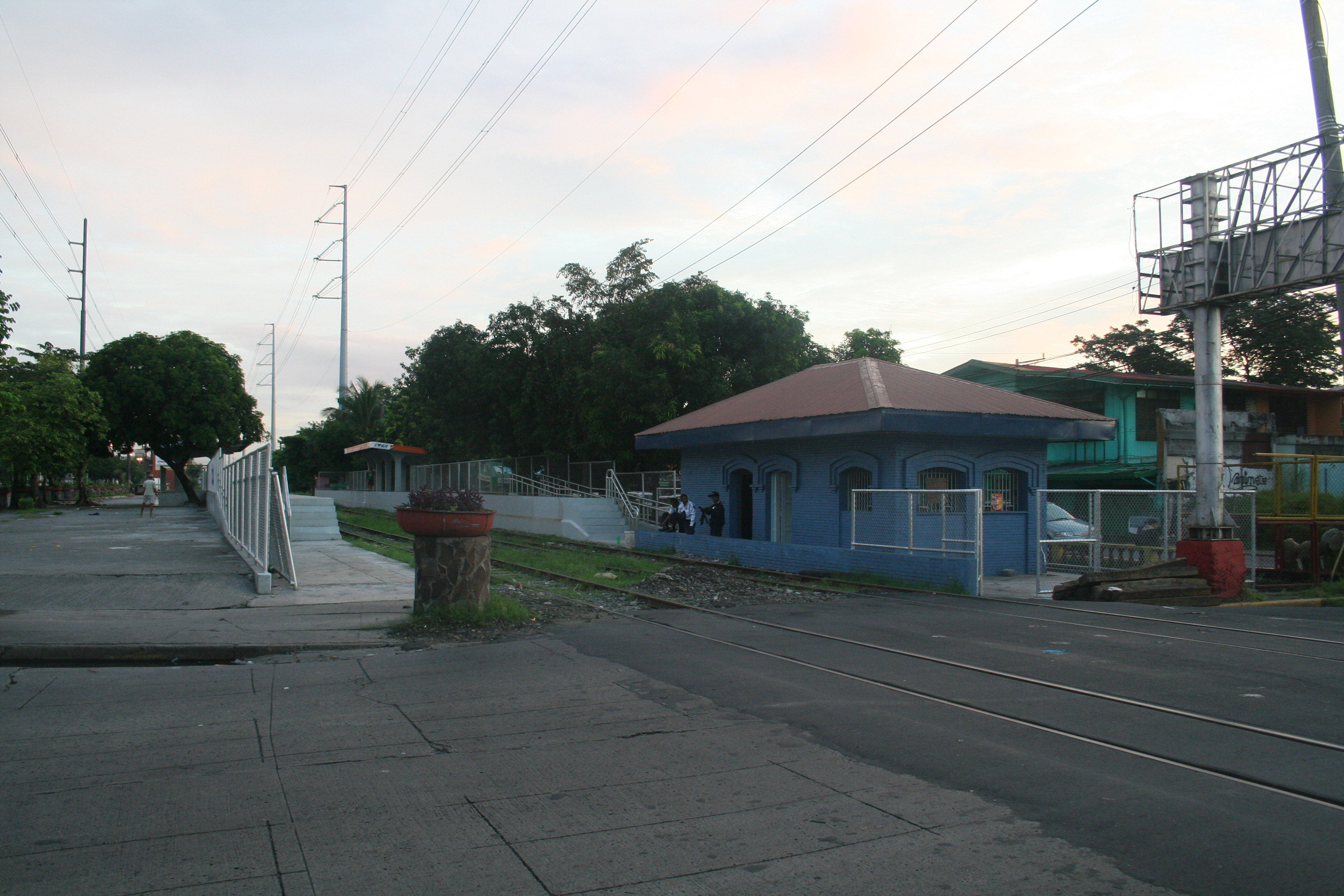 Exterior of the recently-renovated Vito Cruz railway station.